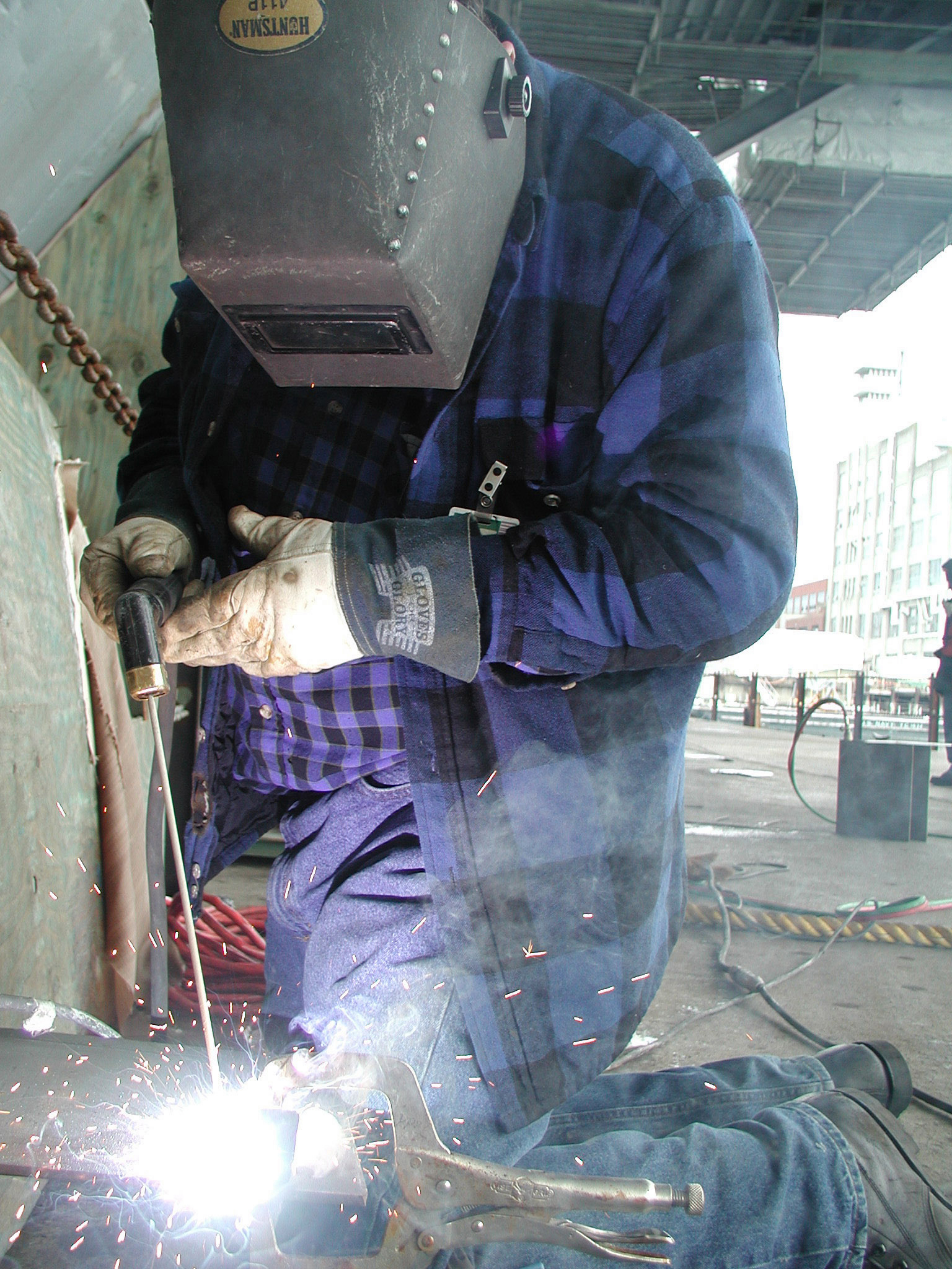 Bremerton, WA (Jun. 8, 2002) -- Wayne Weight, a shipyard worker from Paulsbo, WA, works on revamping the JP-5 fuel-overflow system on the aircraft carrier USS Carl Vinson (CVN 70). Carl Vinson is eliminating 34 of its 52 JP-5 fuel-overflow boxes and installing a more efficient pipe system. The remaining 18 overflow boxes are being replaced following an extensive deployment in support of Operation Enduring Freedom. U.S. Navy photo by Photographer's Mate Airman Ryan Jackson. (RELEASED)